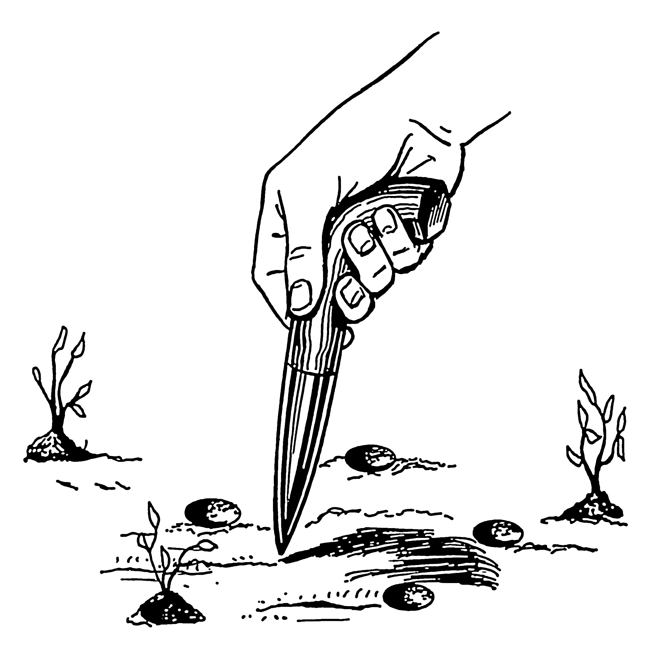 Line art drawing of a dibble.